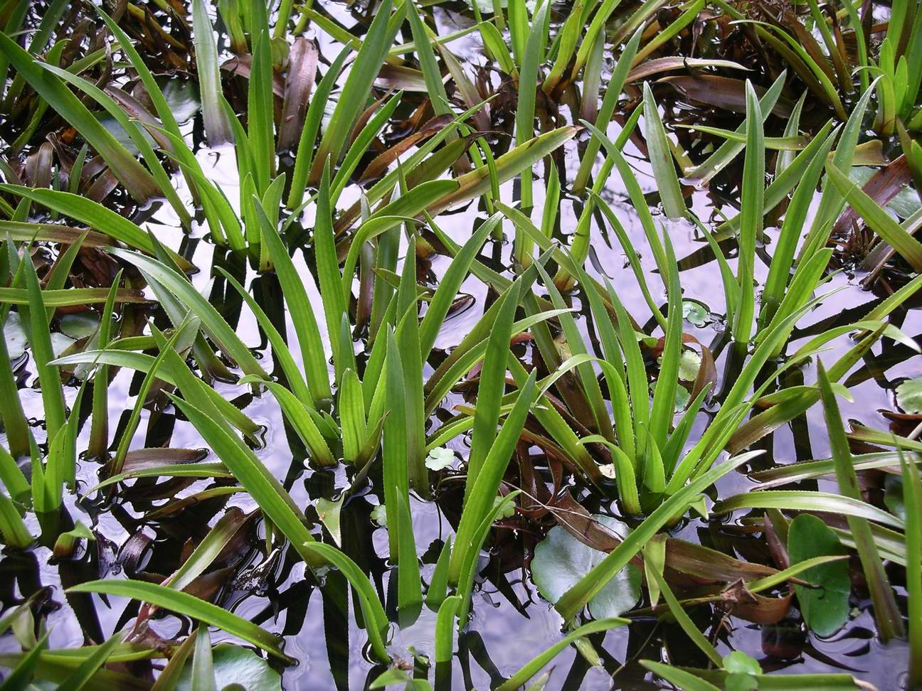 Water soldier, Startiodes aloides plants growing in a pond.